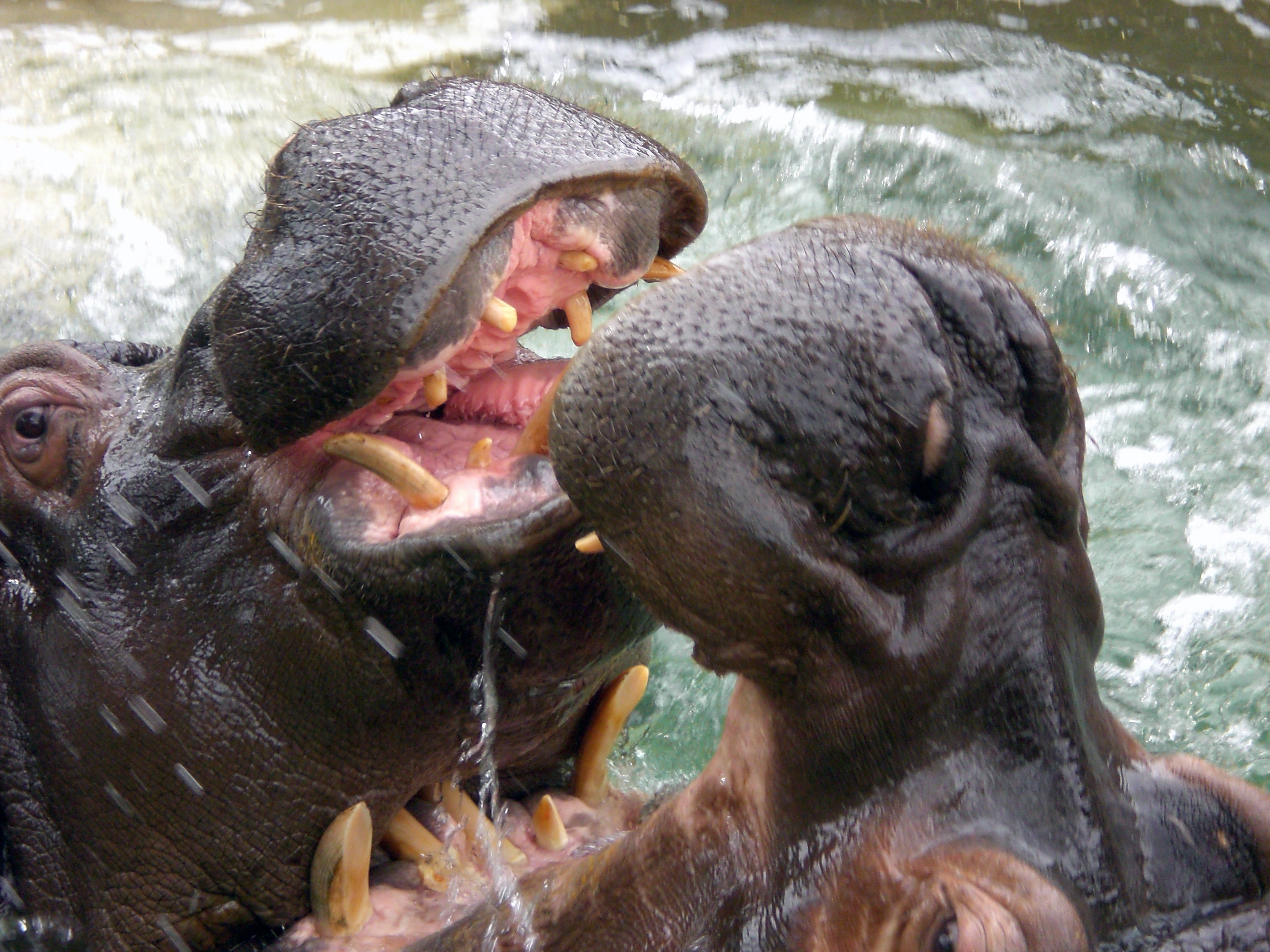 Two hippopotamus (Hippopotamus amphibius) fighting at the Barcelona Zoo (Catalonia, Spain).